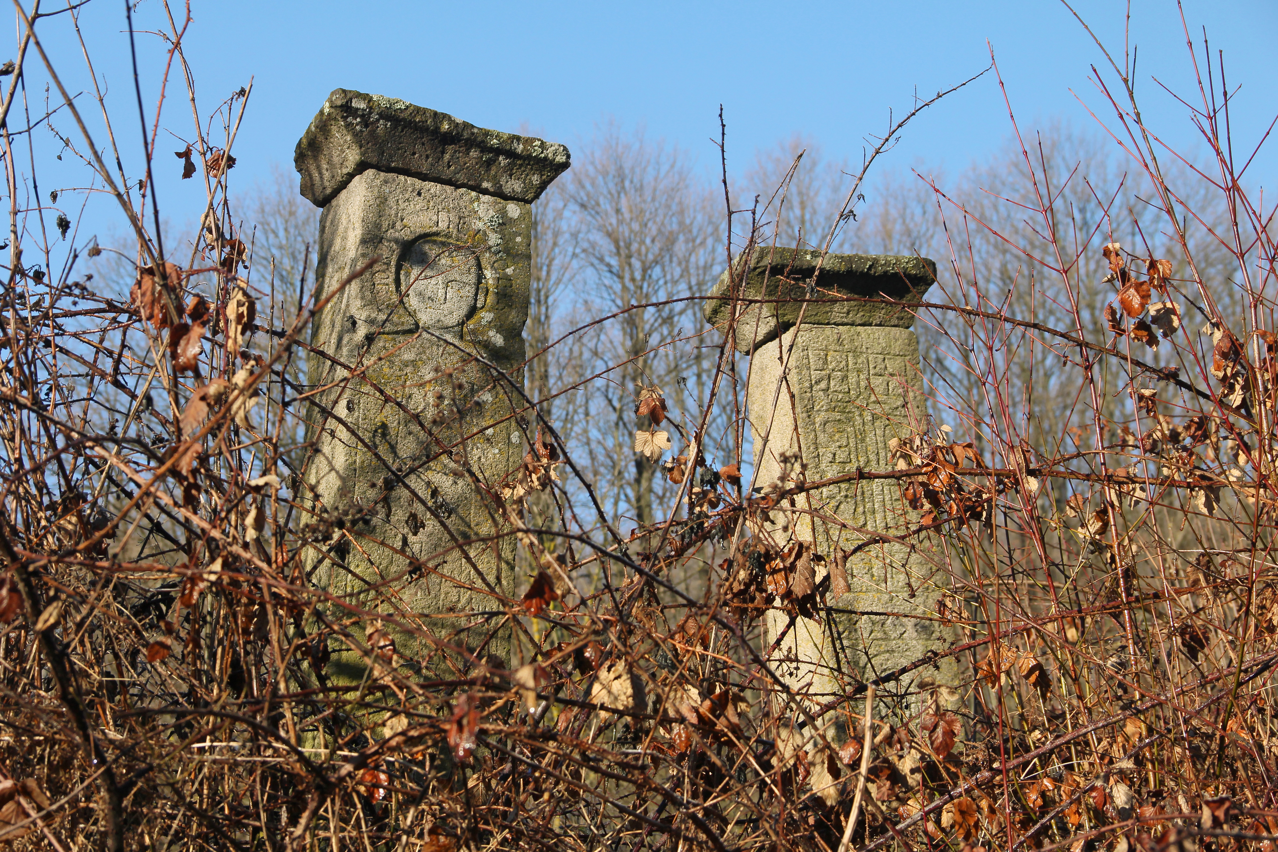 Roadside tombstones erected in memory of Simo and Jovan Petrovic, located in the village of Majdan (the municipality of Gornji Milanovac), Serbia.